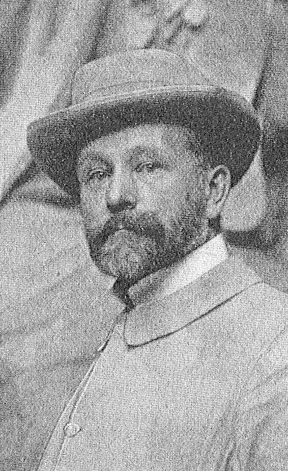 Theodor Lundberg (1852-1926), Swedish sculptor and professor at the Royal University College of Fine Arts in Stockholm.